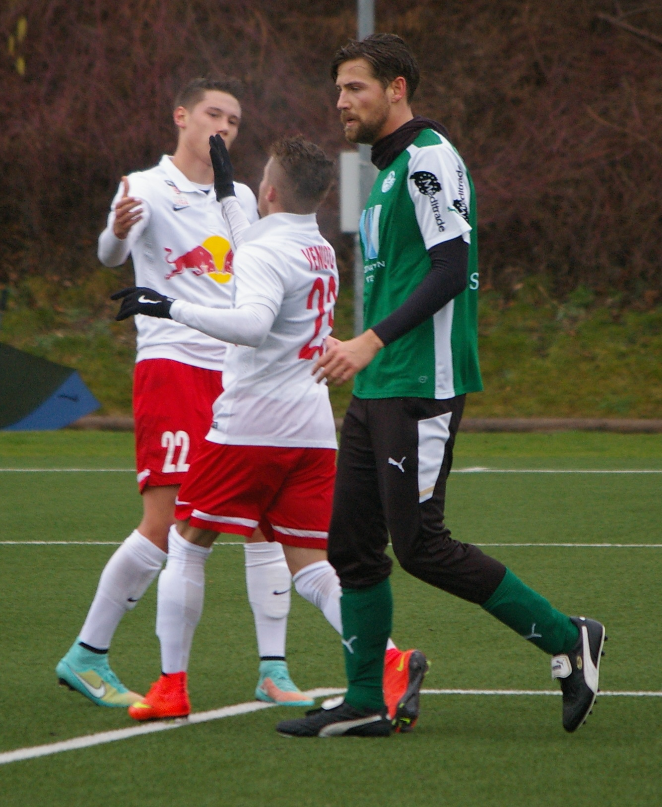 friendly match